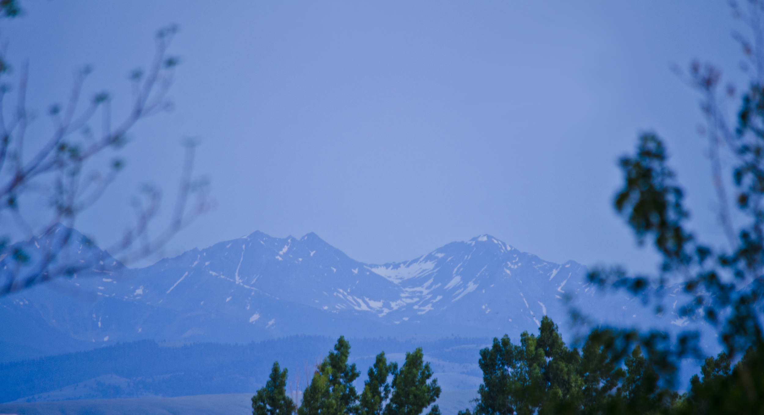 Snow in the Madison Range, as seen from Bozeman, Montana.